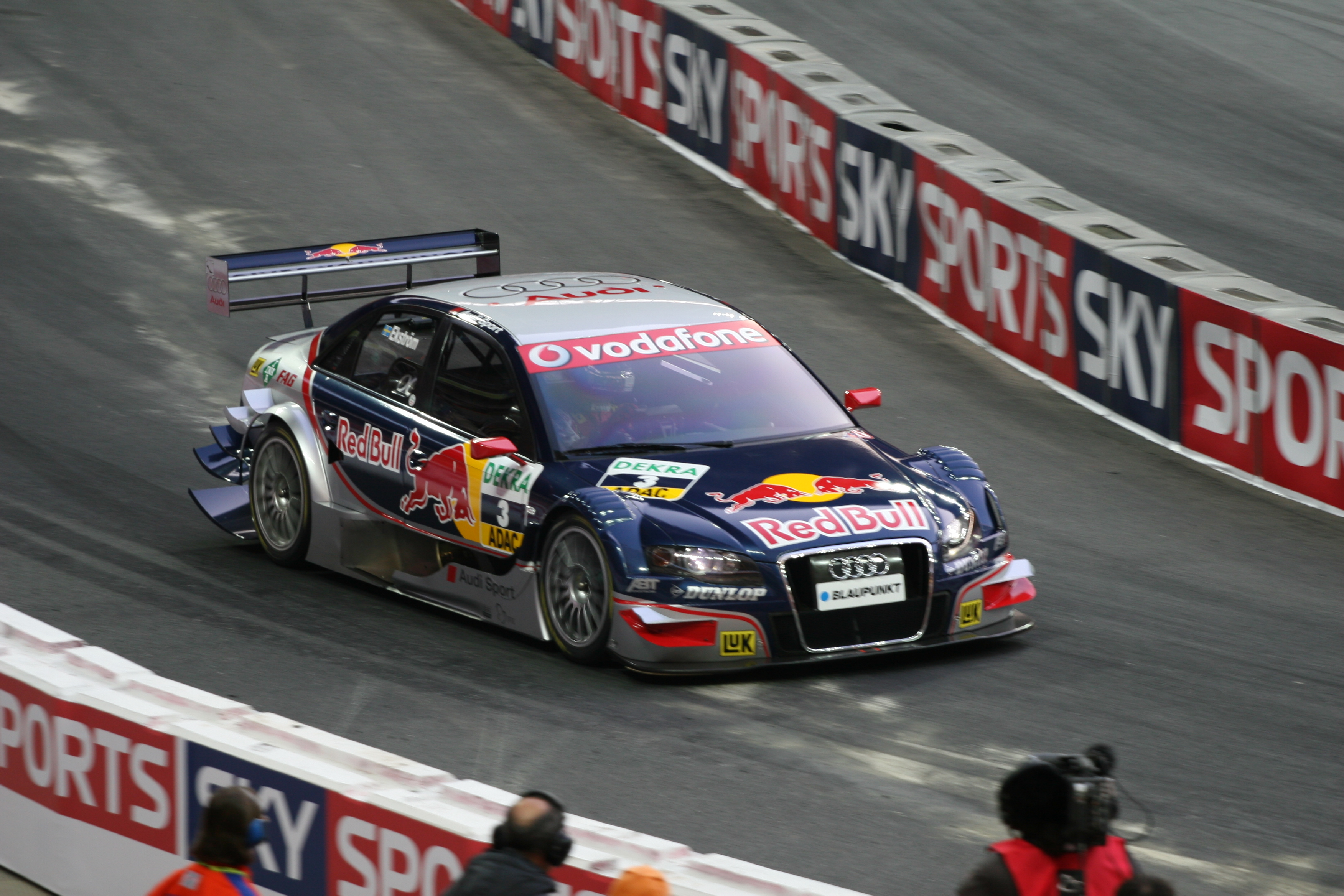 Mattias Ekström driving his DTM car at the 2007 Race of Champions at Wembley Stadium.